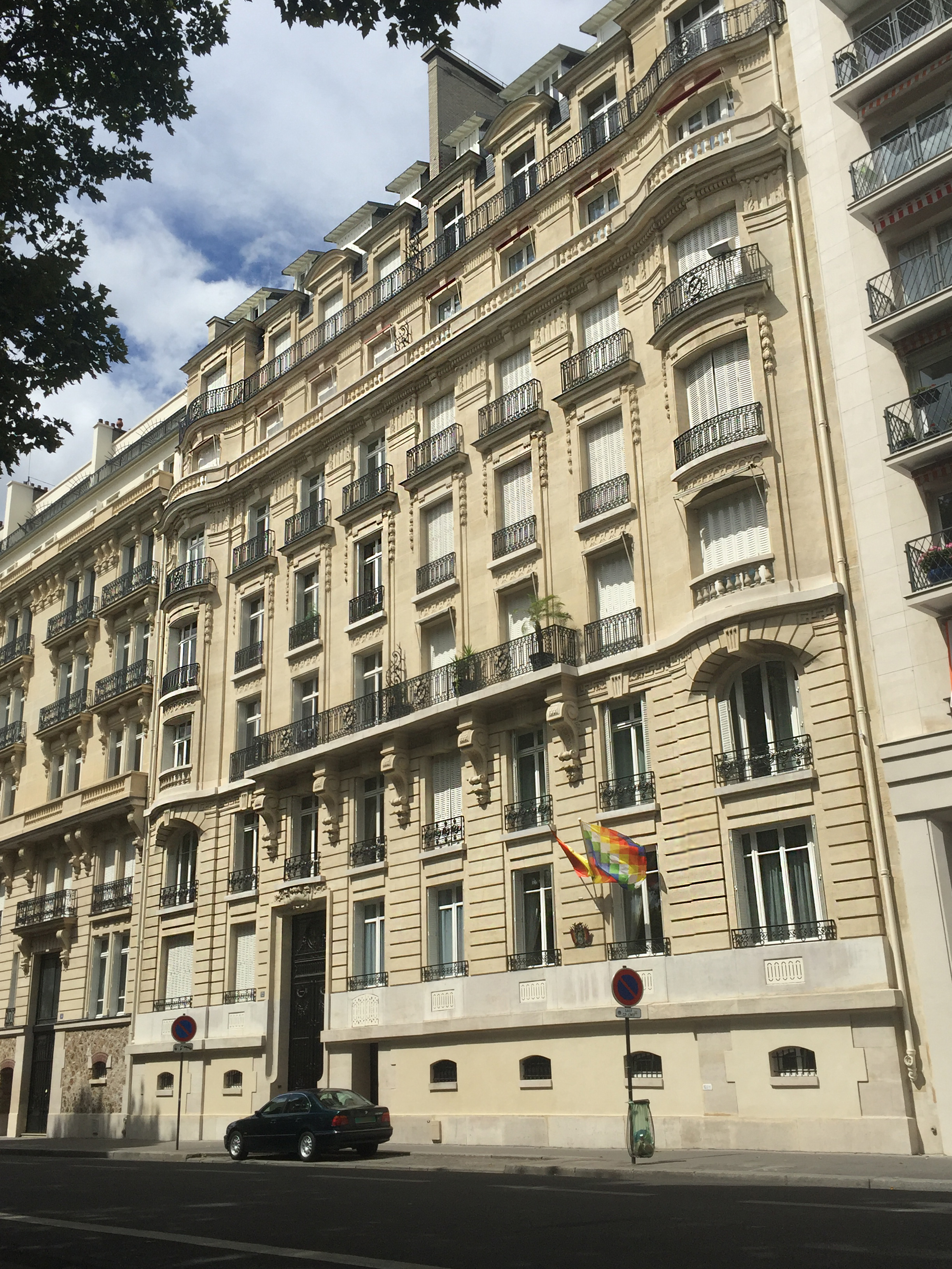 Embassy of Bolivia in France